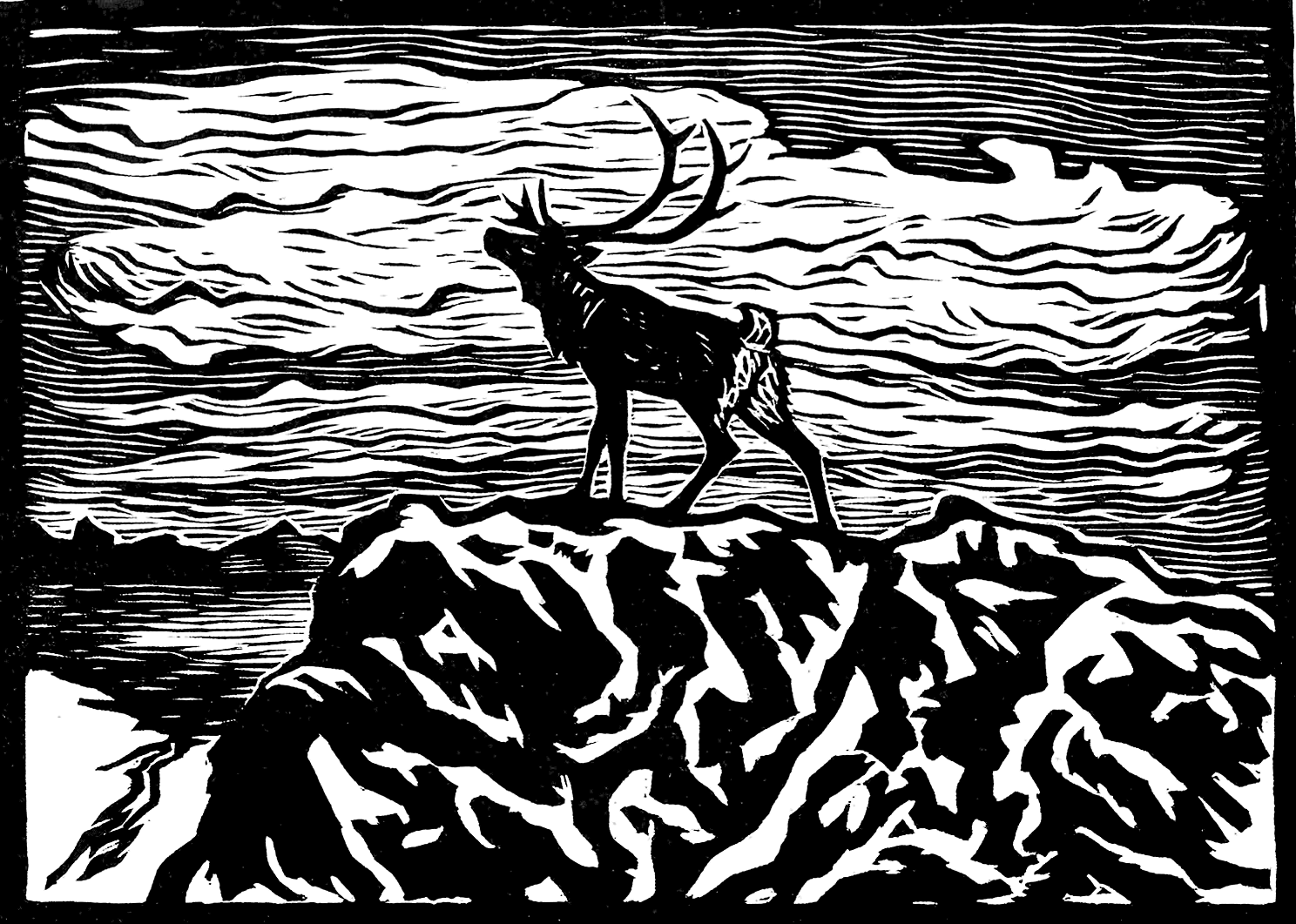 “Okto” woodcut by sami artist John Savio (1902-1938)